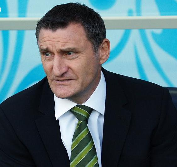 Toni Mowbray (born 22 November 1963 in Saltburn-by-the-Sea) is a English footballer, coach